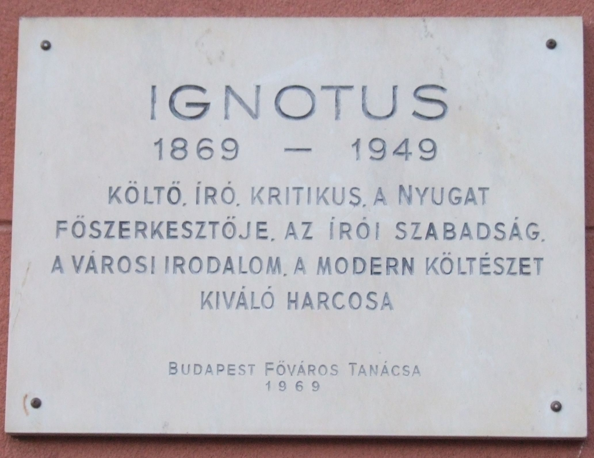 Ignotus commemorative plaque in Budapest District XII, Szilágyi Erzsébet Alley No 10.